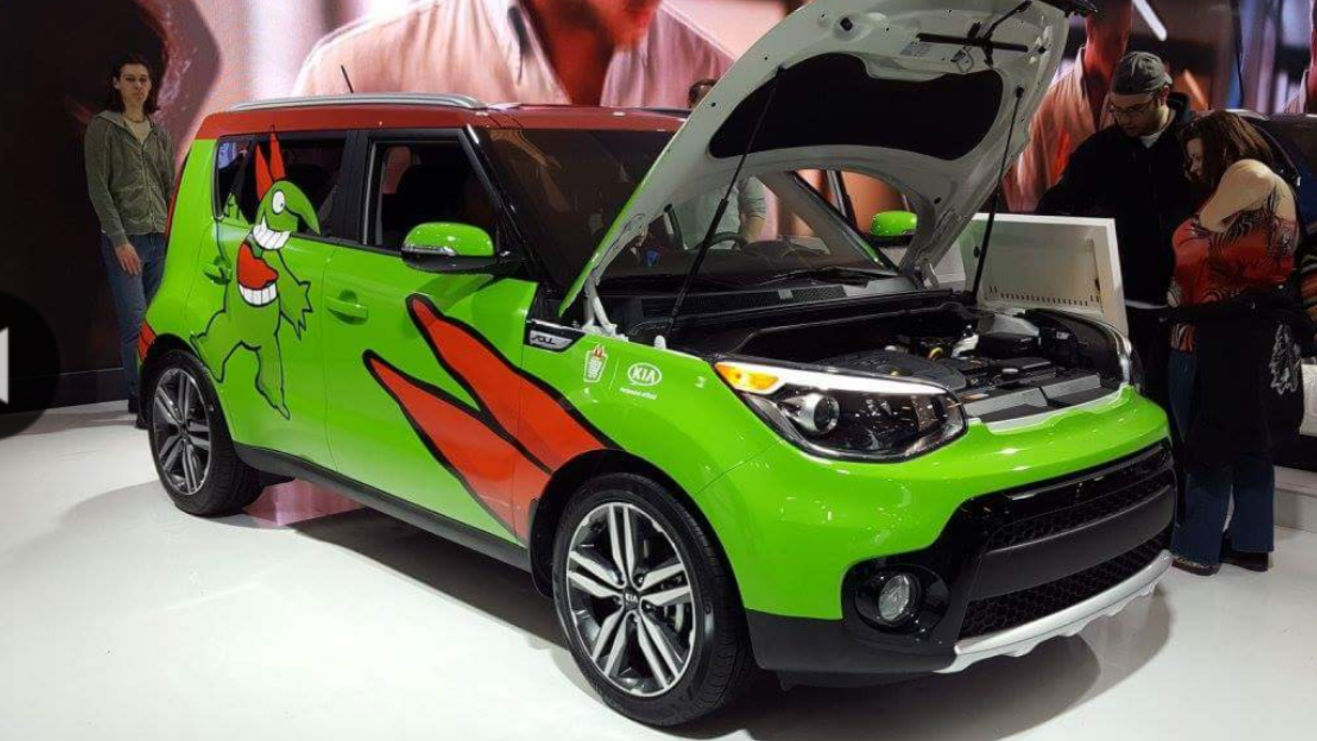 2017 Kia Soul Just For Laughs photographed in Montreal, Quebec, Canada at the Montreal International Auto Show 2017.